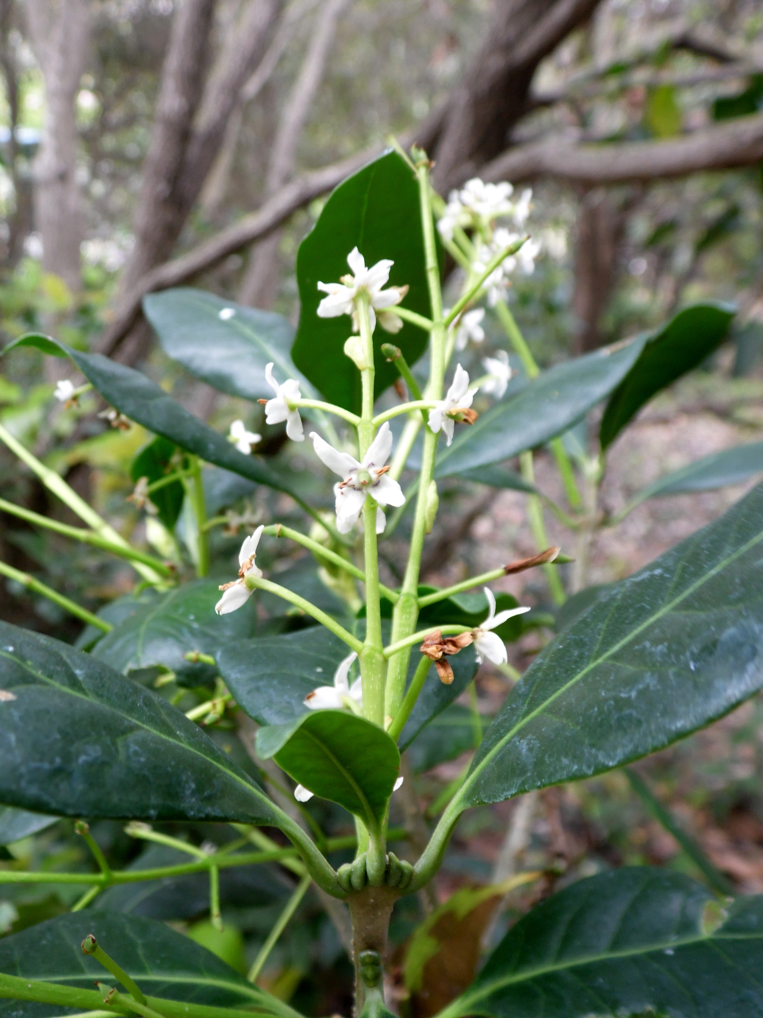 Picconia excelsa in Jardín Botánico Canario Viera y Clavijo